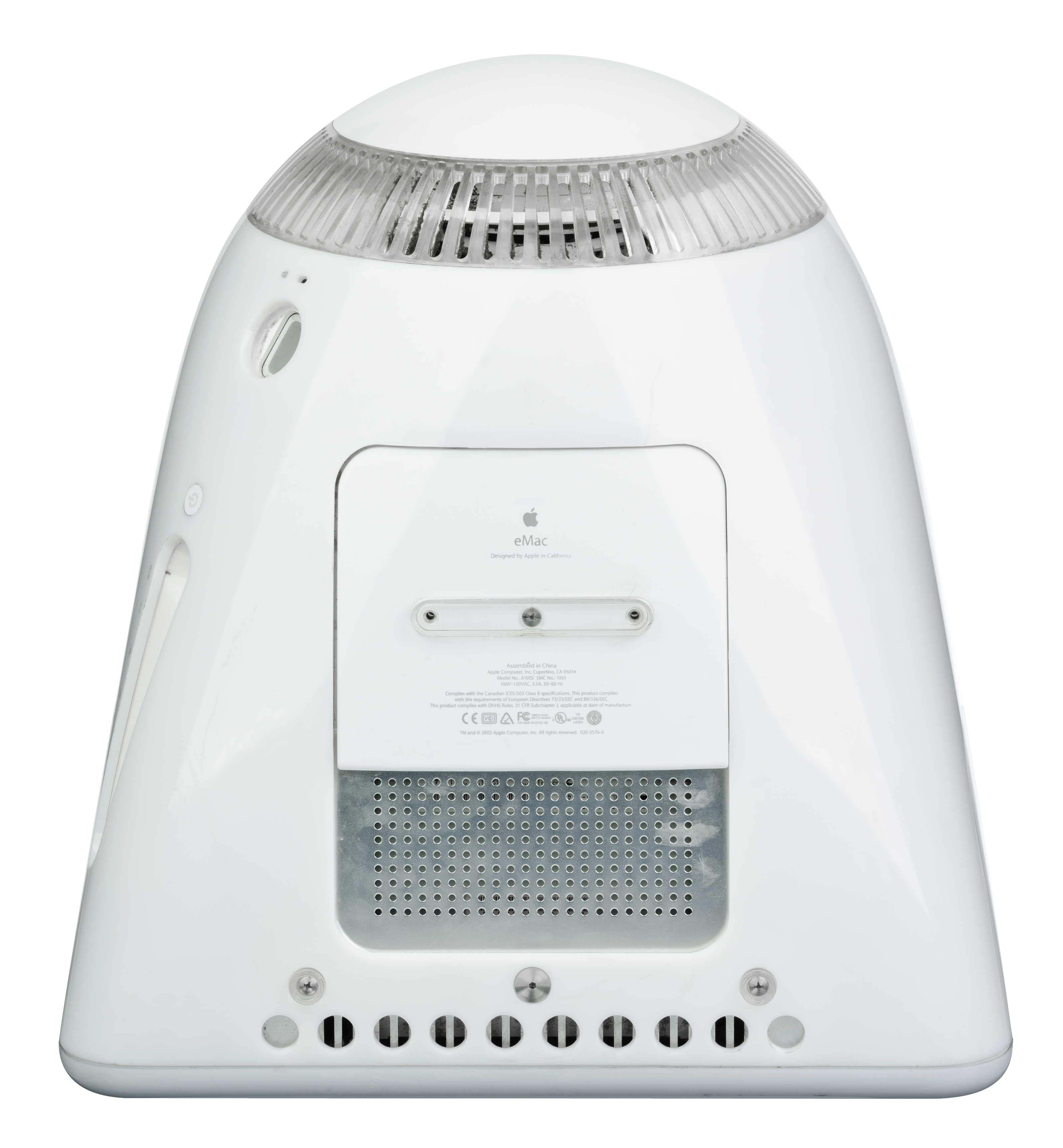 The Apple eMac, an all-in-one computer released by Apple in 2002. It used a CRT monitor that had the computer built around it, similar to the first generation iMacs. This was at first an education-market computer, but was later sold in stores.